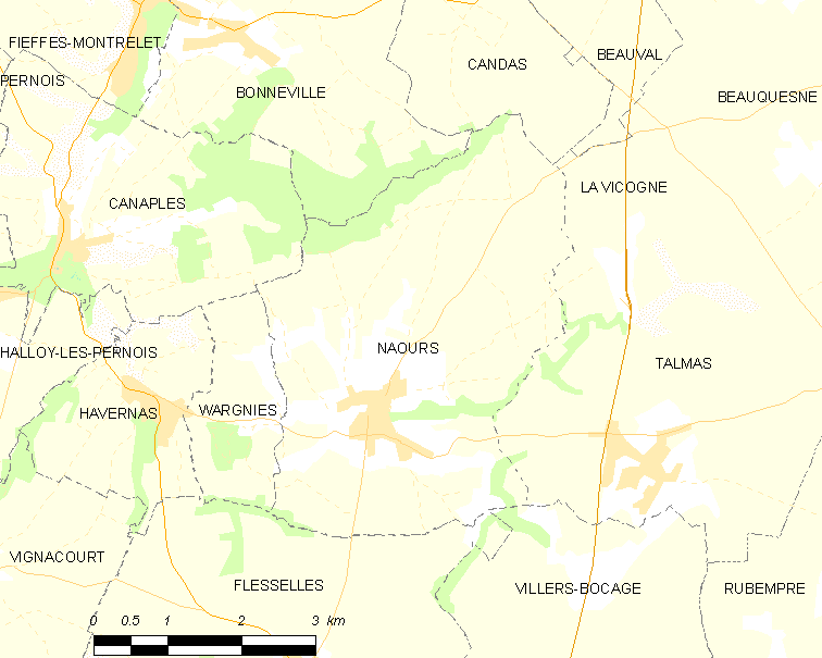 Map of French municipality Naours